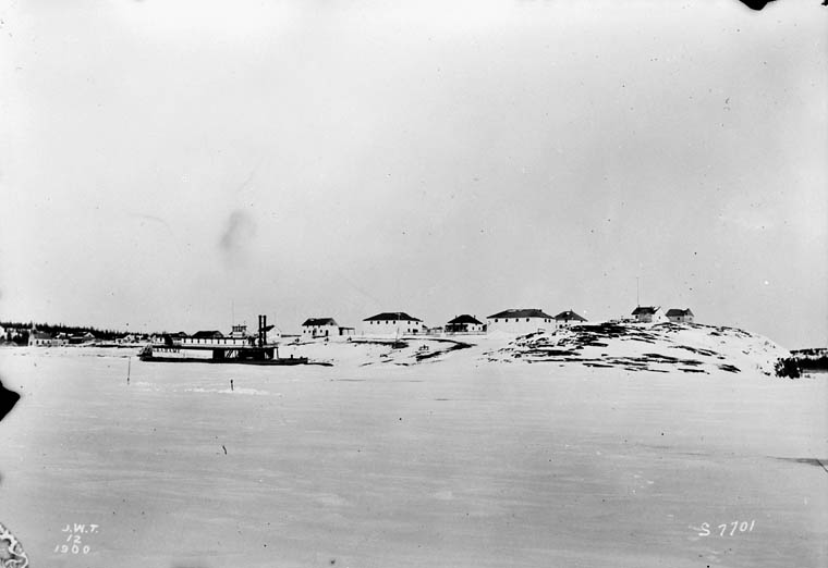 [Fort] Chipewyan, steamer "Grahame" in foreground.